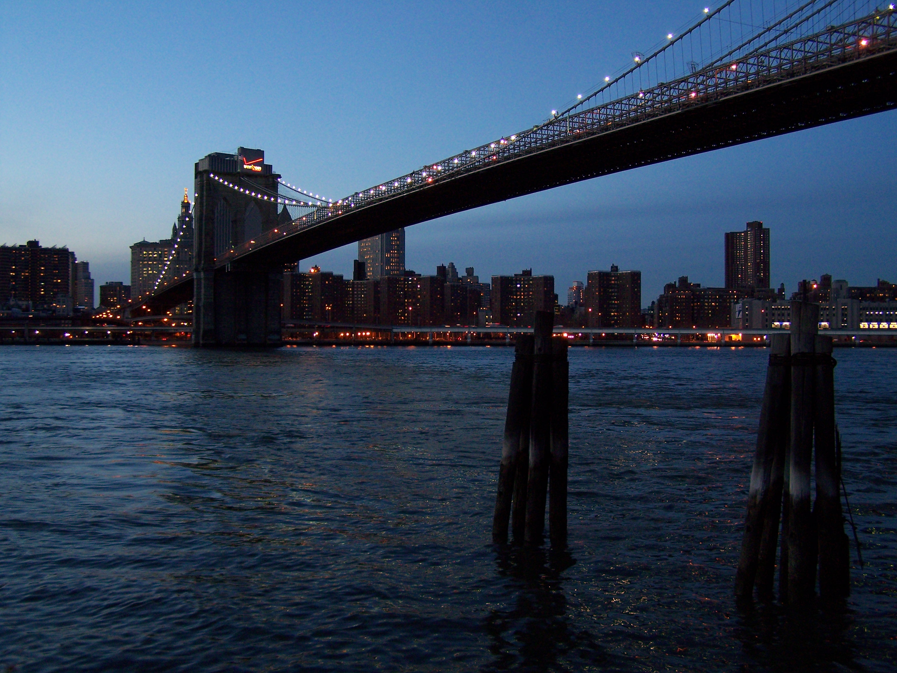 The Brooklyn Bridge and the East River in New York.